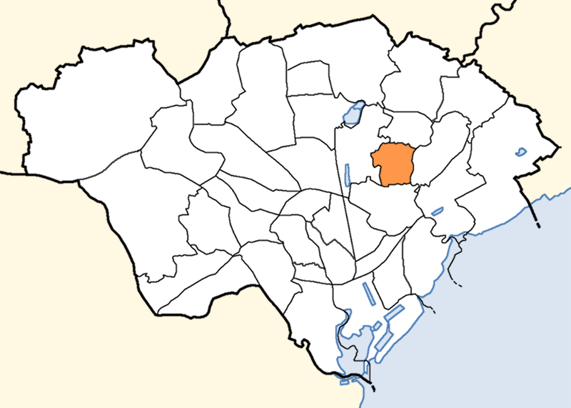 Location map of the community of Llanedeyrn (post-2016) in Cardiff, Wales. Originally part of the Pentwyn community, Llanedeyrn didn't get its own community status until 2016.